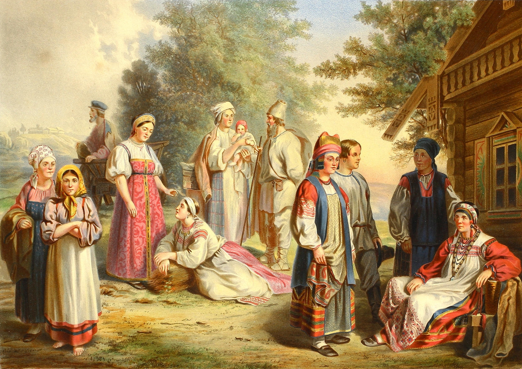 Velikorossijane